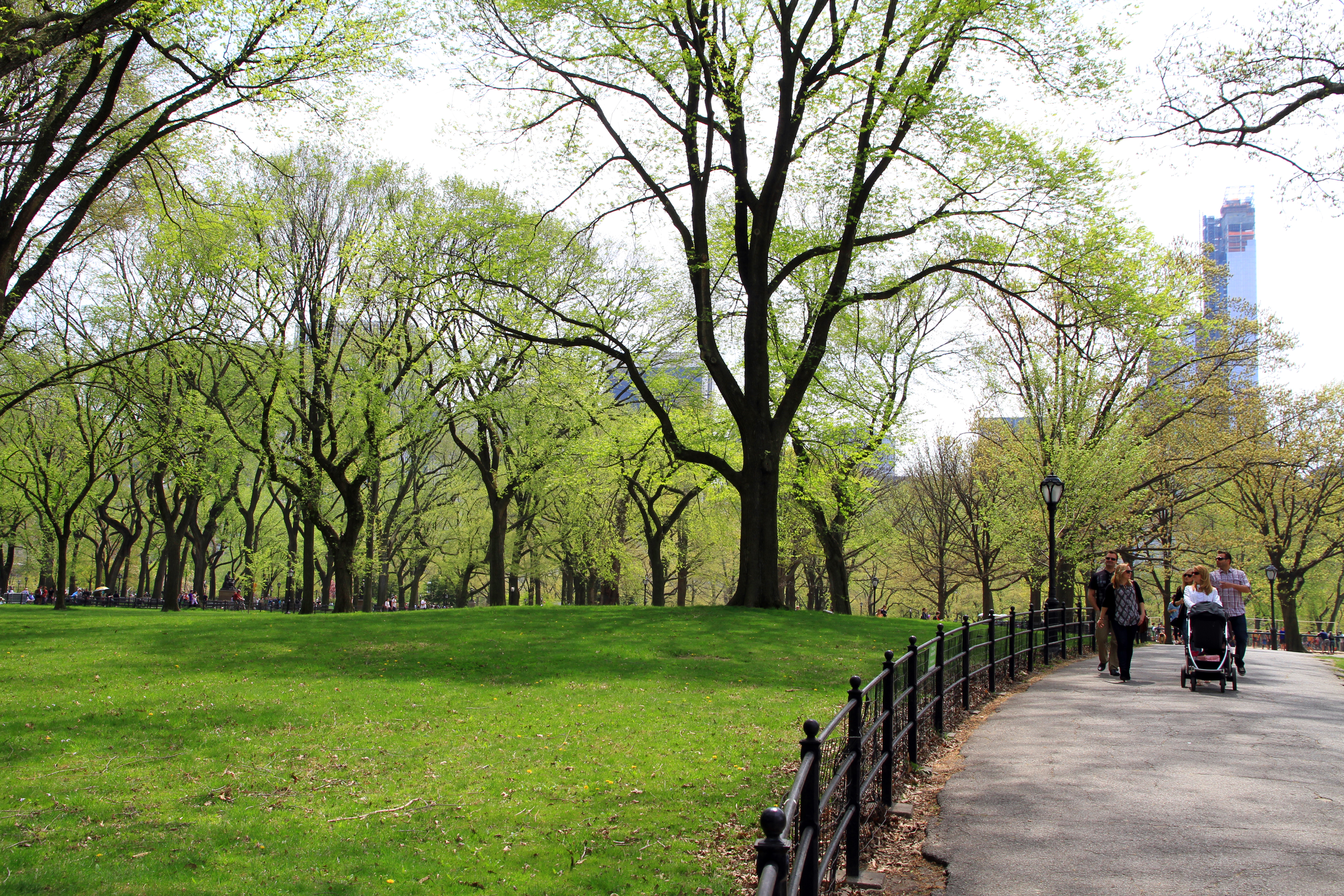 The Mall